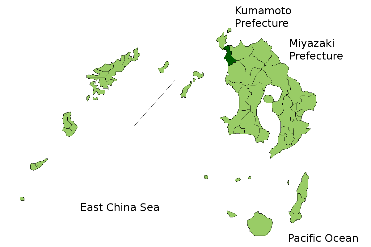 Location Map of Akune in Kagoshima Prefecture, Japan